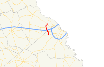 Map of Georgia State Route 383